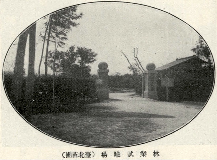 Ringyō Shikenjō, Taihoku